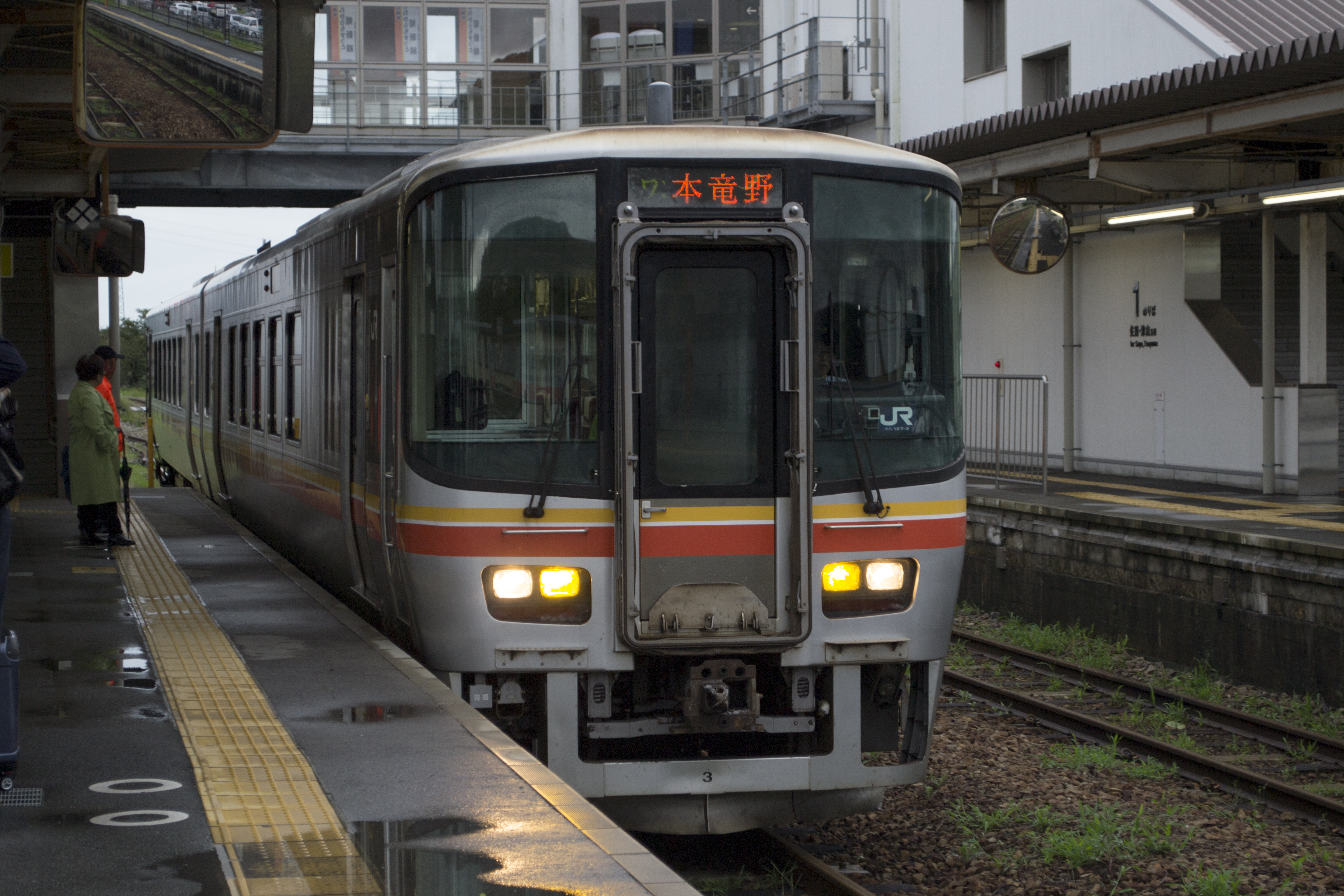 Hontatsuno Station